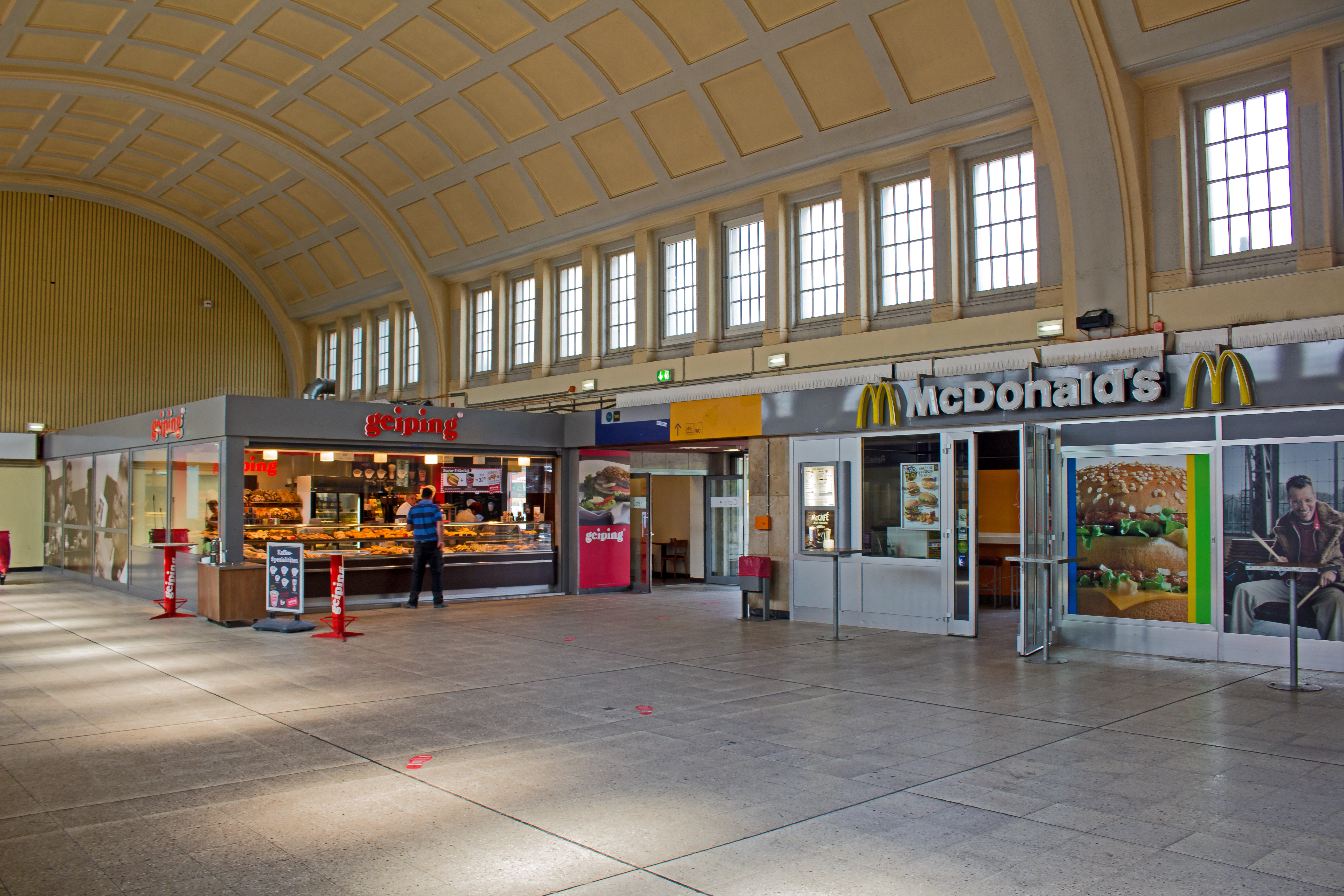 waiting hall of Wanne-Eickel main station - Herne, North Rhine-Westphalia, Germany